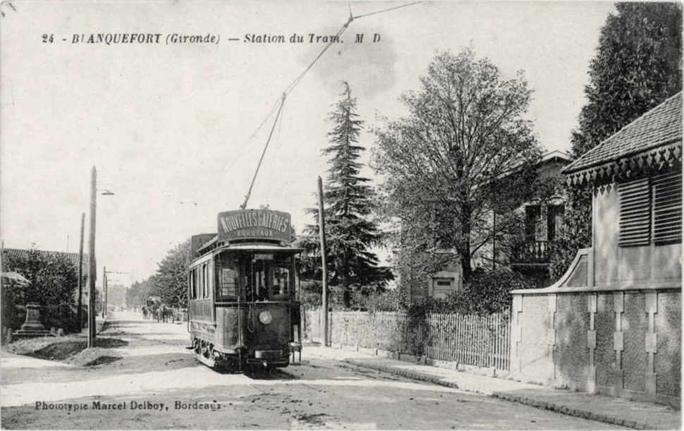 Former tram in Blanquefort.